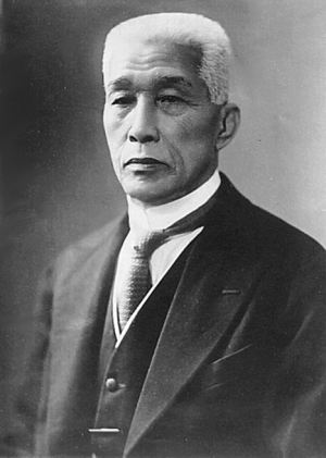 Yoshiaki Yamashita The digital copy uploaded here was made from an original photograph currently in the collection of the uploader (Joseph Svinth). The photo in the Svinth collection was brought to the USA from Japan in 1935, and was obtained by Svinth in 1999. The first known publication of any version of this photo of which the uploader is aware is "Histoire du Judo", Revue Judo Kodokan, v. XII:5, November 1962.